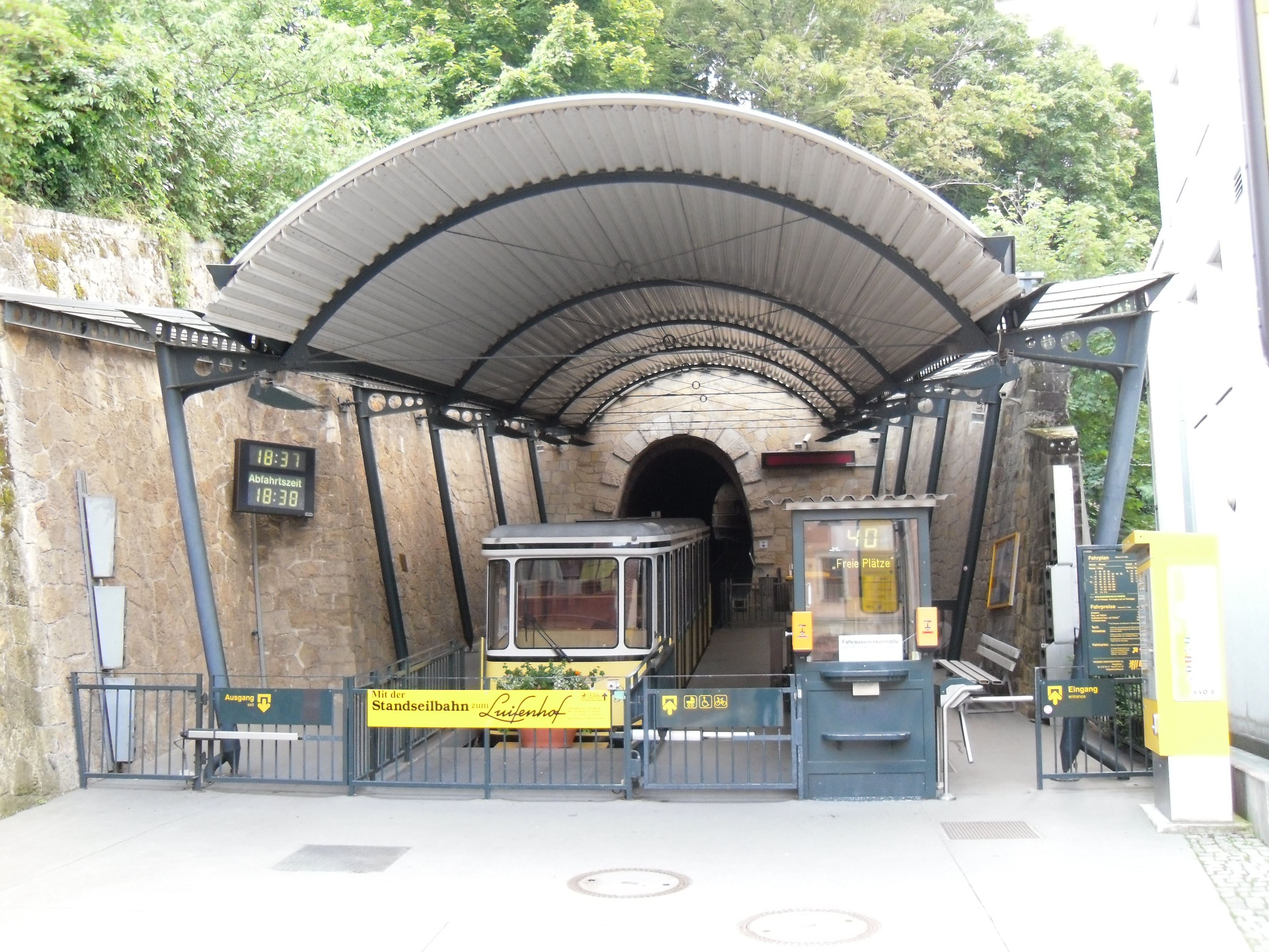 Standseilbahn Dresden